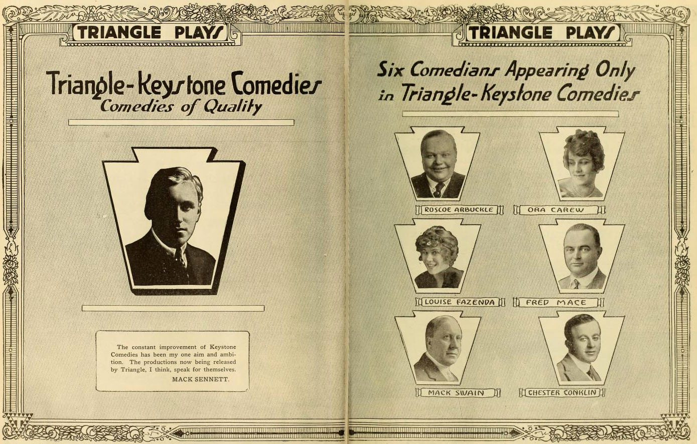 Advertisement in Moving Picture World promoting Triangle Film actors and actresses.